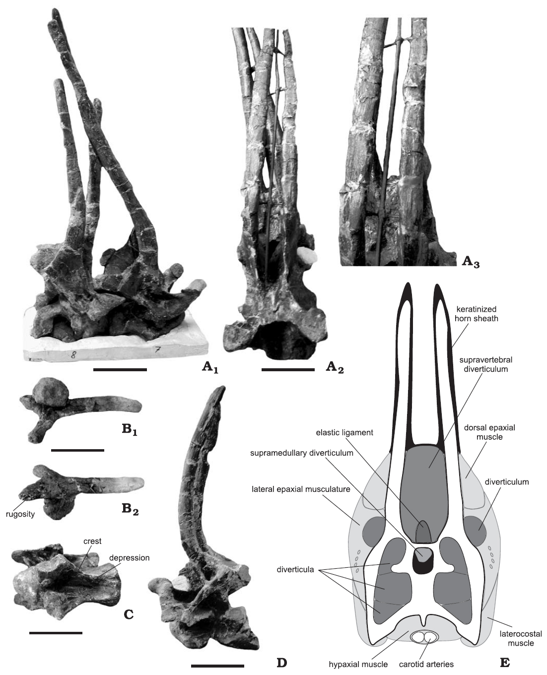 Photographs and reconstructions of soft−tissues in the neck of Amargasaurus cazaui (MACN−N−15)), La Amarga, Neuquén, Argentina, La Amarga Formation, Hauterivian, Early Cretaceous. A. 7th and 8th cervical vertebra in left lateral (A1) and in cranial aspects (A2) and with close−up cranial view show− ing crests at the cranial face of neural spines (A3). B. Isolated cervical rib in dorsal (B1) and ventral (B2) aspects. C. Vertebral corpus of 5th cervical vertebra in ventral aspect. D. 10th cervical vertebral in left lateral aspect. E. Transverse cross−sections through cervical vertebra in the diapophysis region, with inter− nal extension of pneumatic cavities basing on Dicraeosaurus hansemanni (see also Fig. 8). Scale bars 60 mm, E is not to scale.